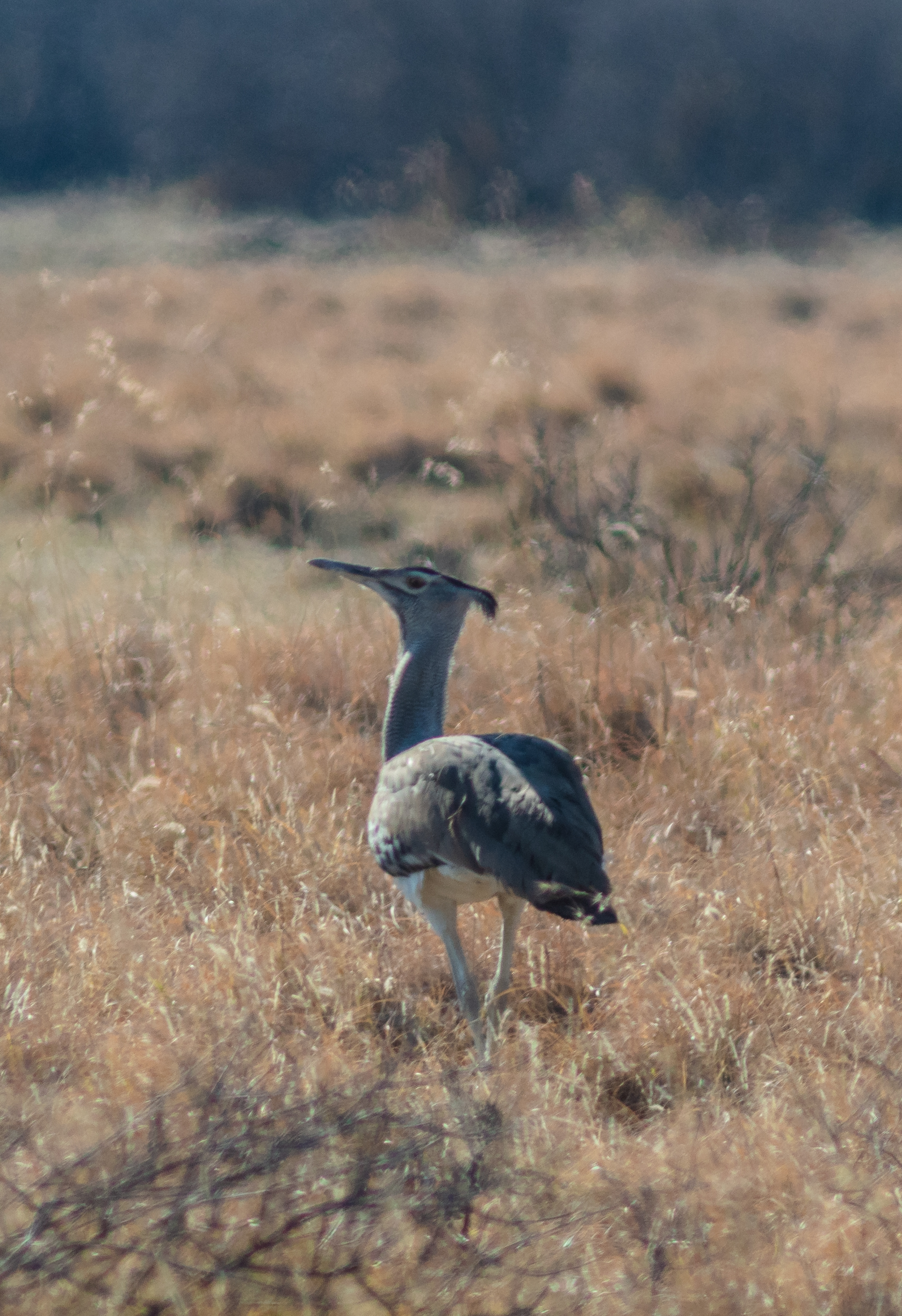 Kori bustard (Ardeotis kori), Khama Rhino Sanctuary, Botswana